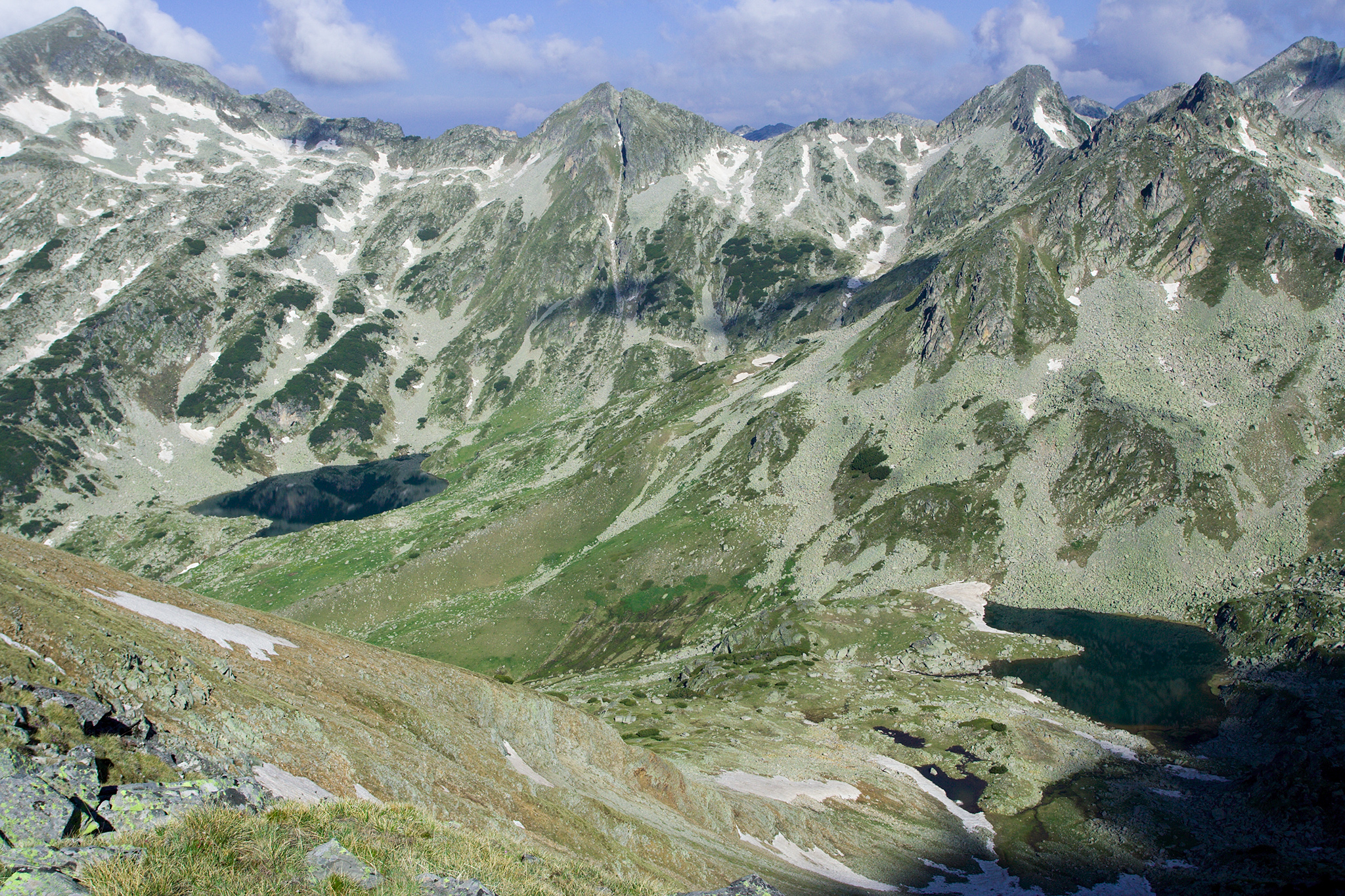 Mitrovo and Argirovo lakes, Pirin mountain, Bulgaria